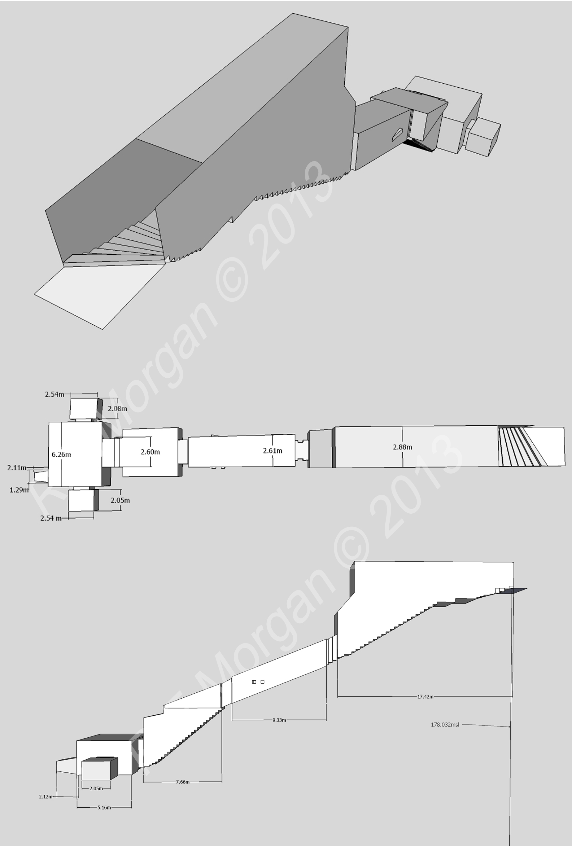 Isometric, plan and elevation images of KV16 taken from a 3d model